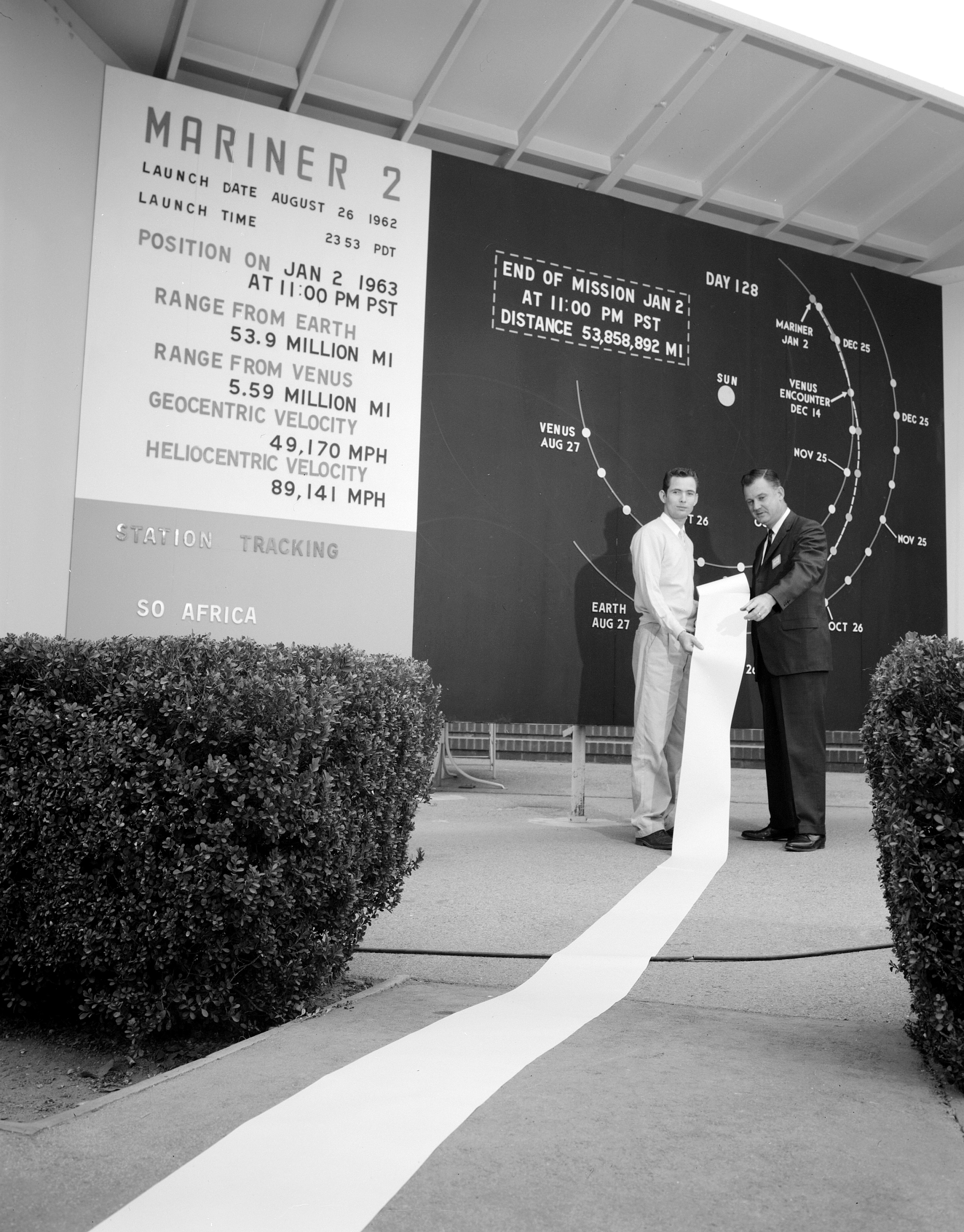 A long scroll of data from Venus, seen in front of JPL's Mariner 2 mission board.